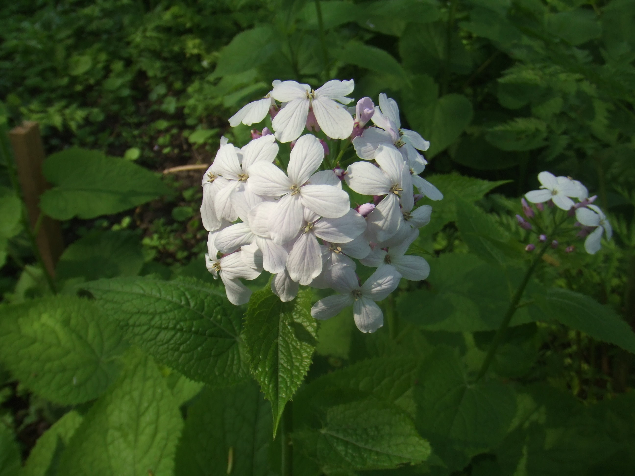 Lunaria rediviva, picture taken at the Botanische Tuin TU Delft, Delft, The Netherlands